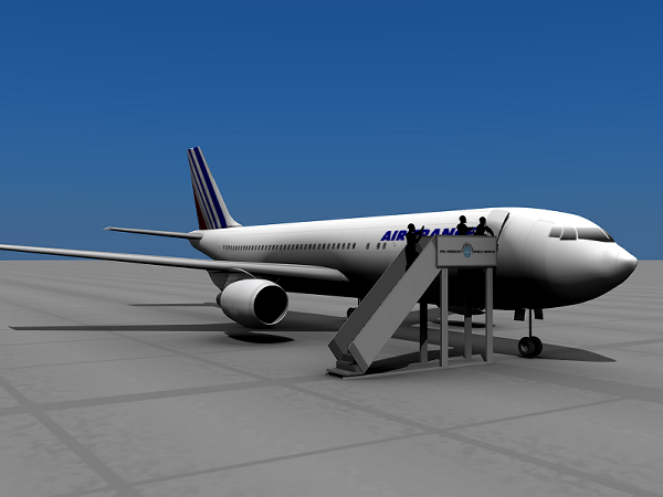 Incomplete study of planned illustration of Air France Flight 8969